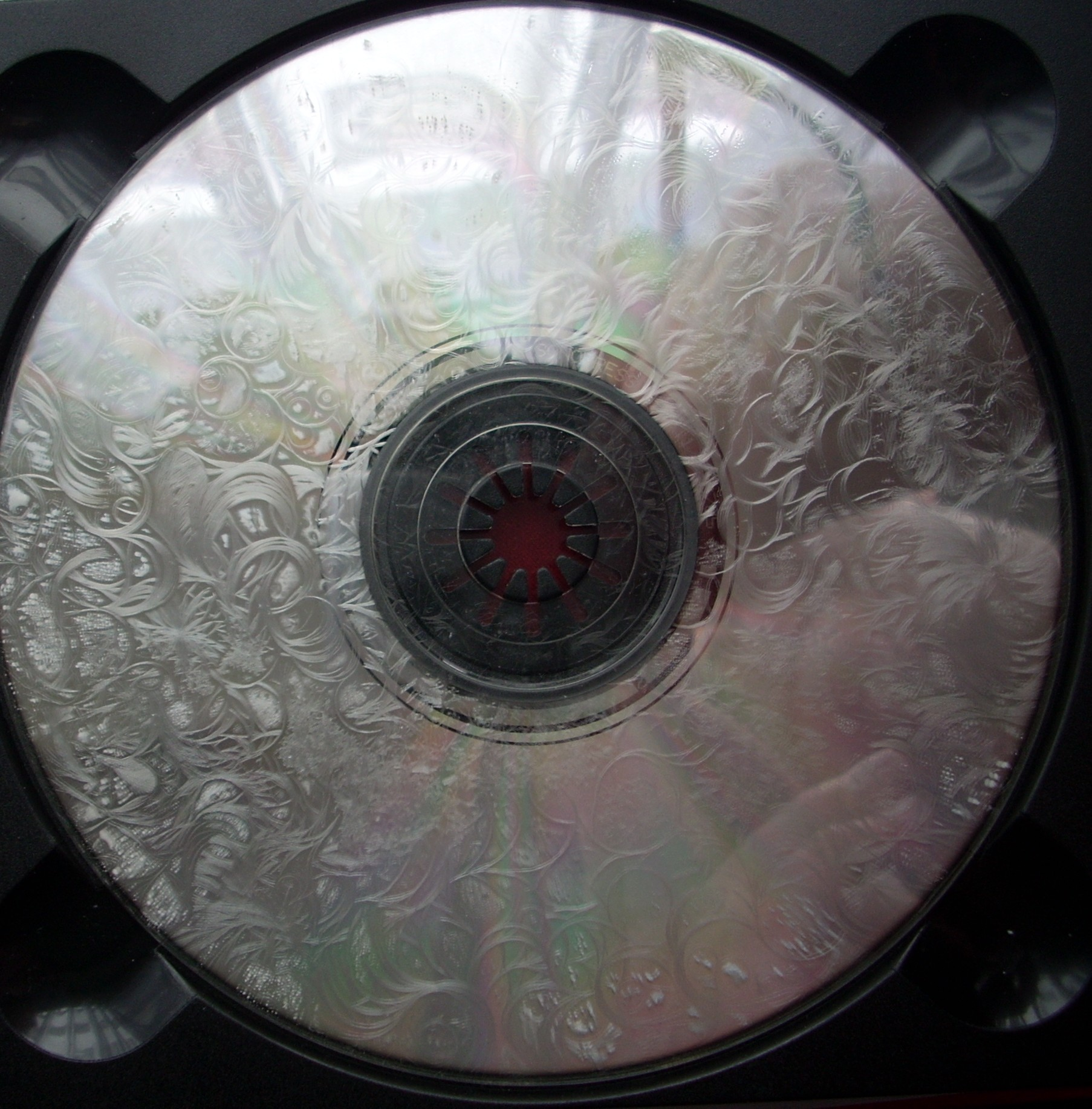 Corrosion of a Compact Disc (Depeche Mode - Condemnation, CD Bong 23, INT 826.765, Release year 1993)